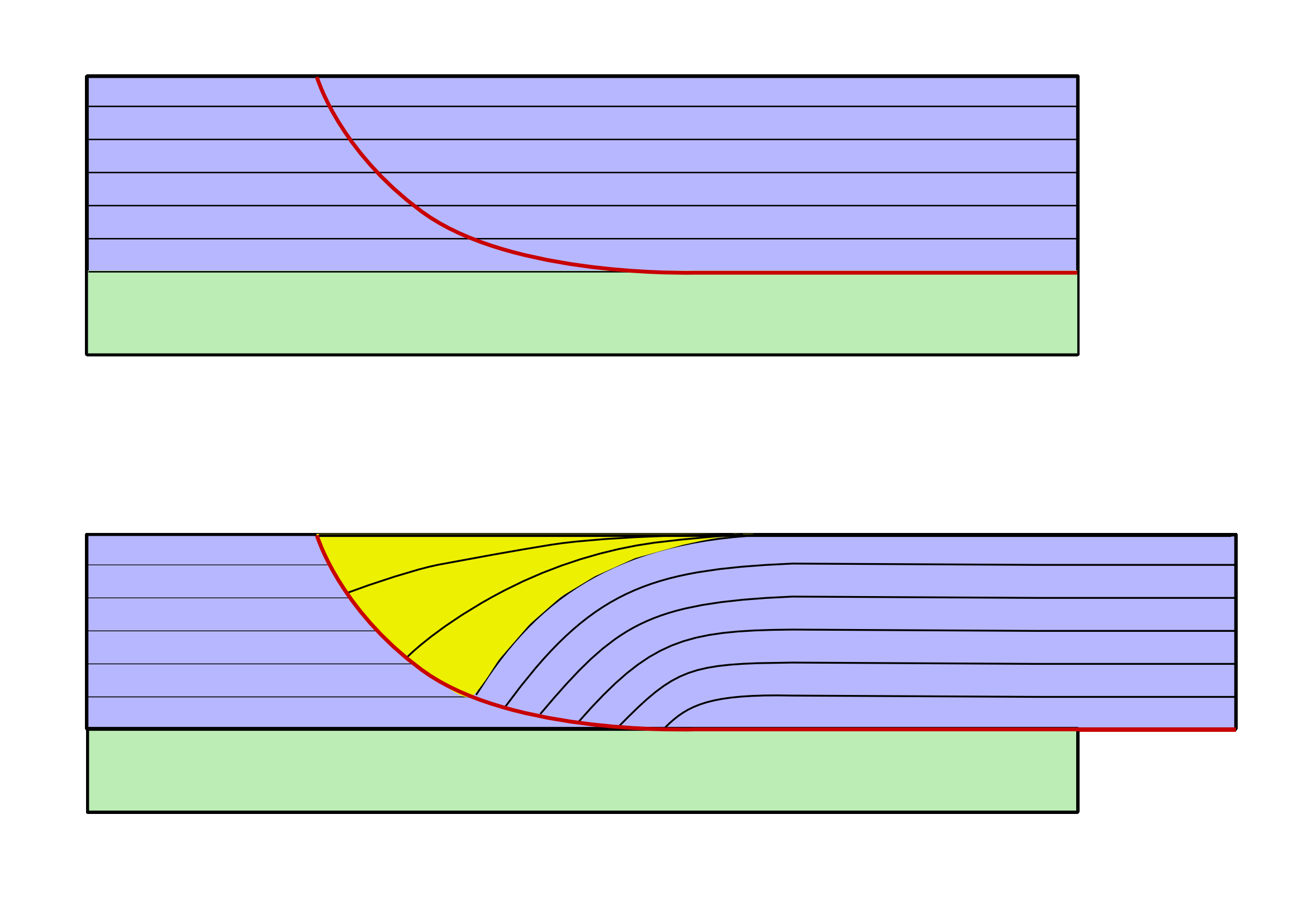 Cartoon of development of rollover anticline above listric extensional fault